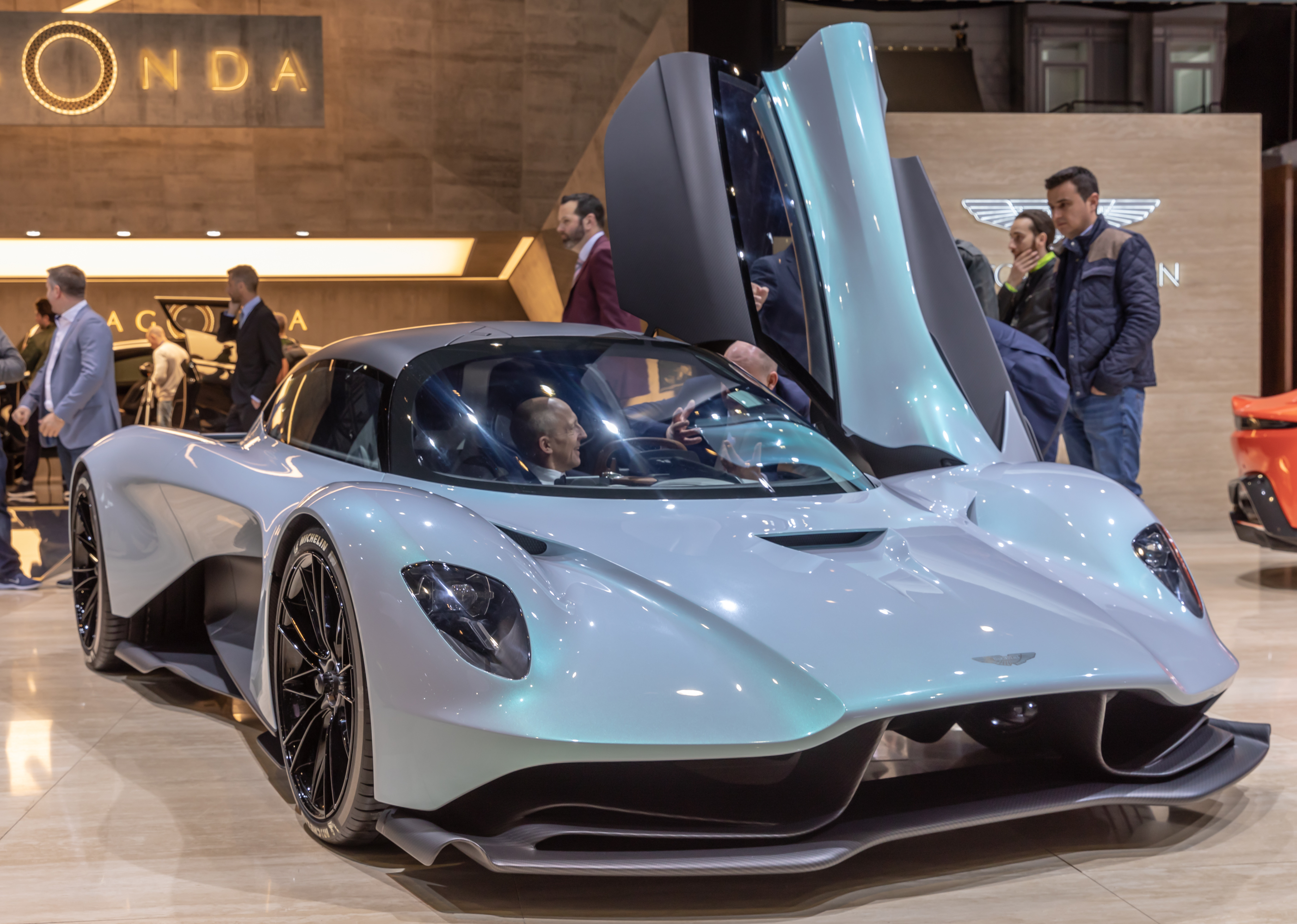 Aston Martin AM-RB 003 at Geneva International Motor Show 2019, Le Grand-Saconnex